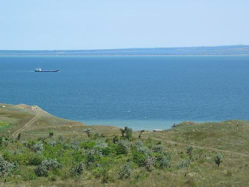 Photo of the Kerch Strait (taken August 8, 2003 by Clipper).